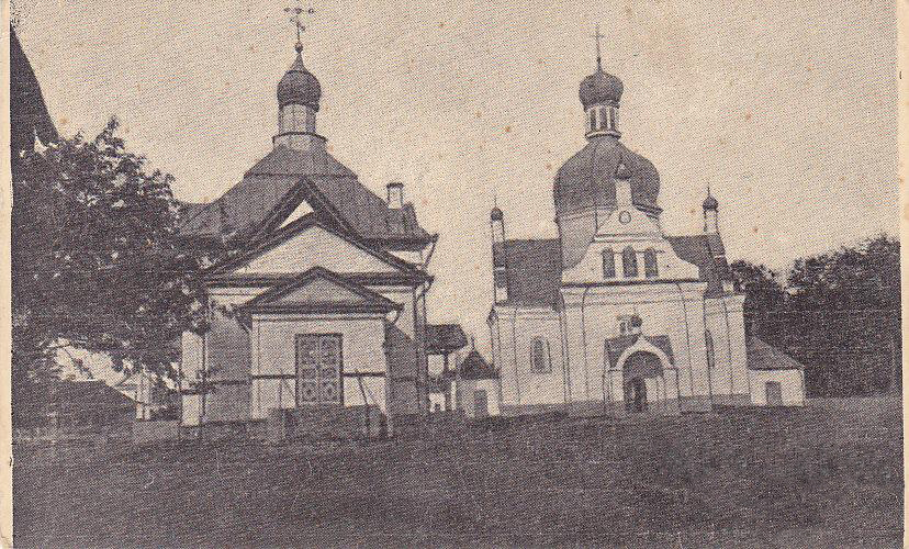 Monastery near Vorša